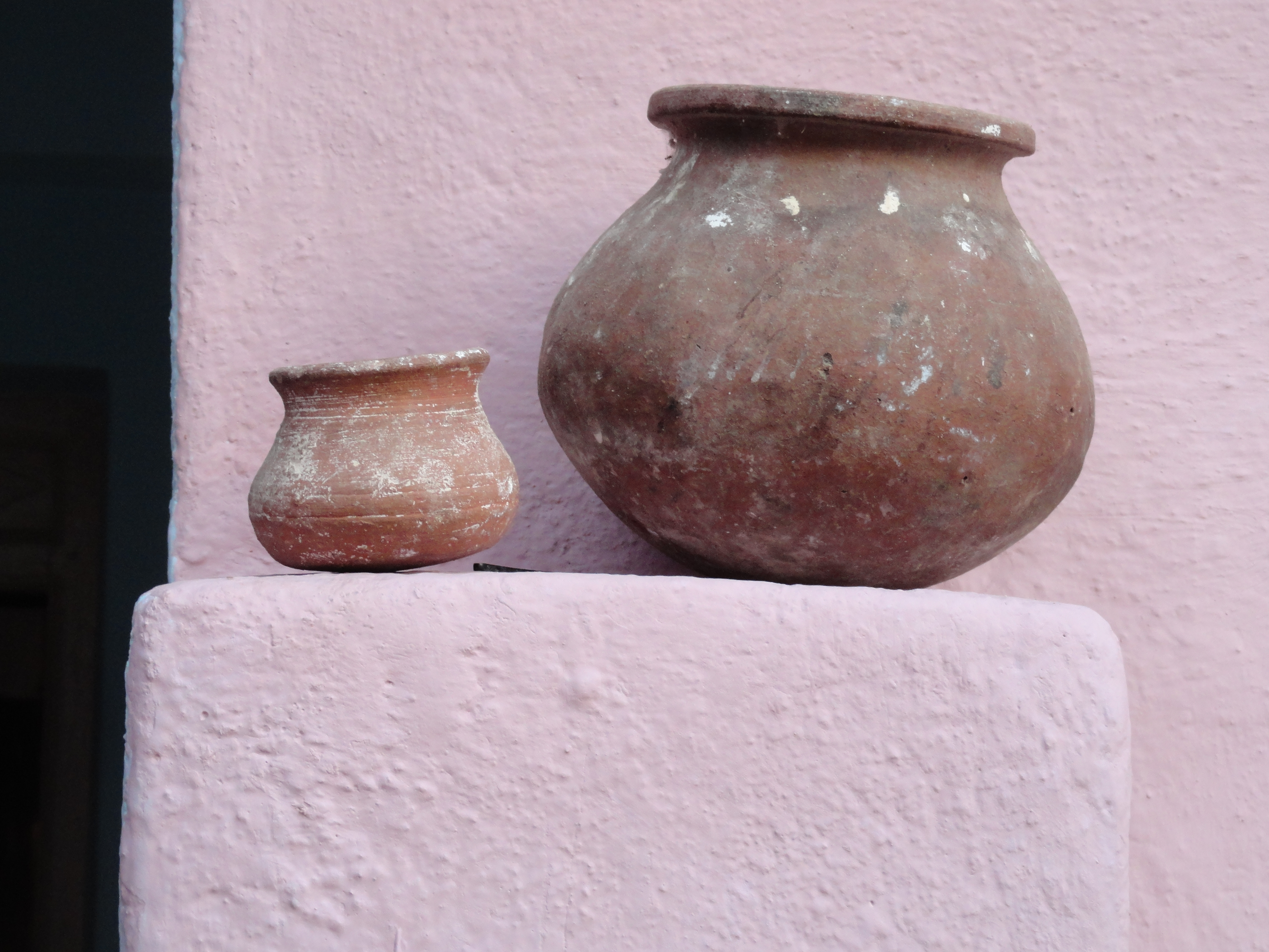 earthen vessels used in Indian villages.one pot and small budiga.